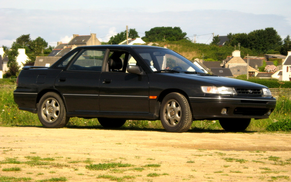 European spec Subaru Legacy Turbo